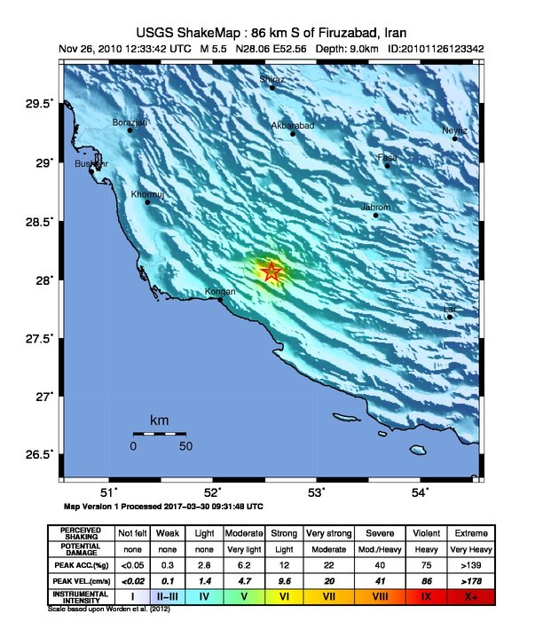 M 5.5 - southern Iran 2010-11-26 12:33:42 (UTC)